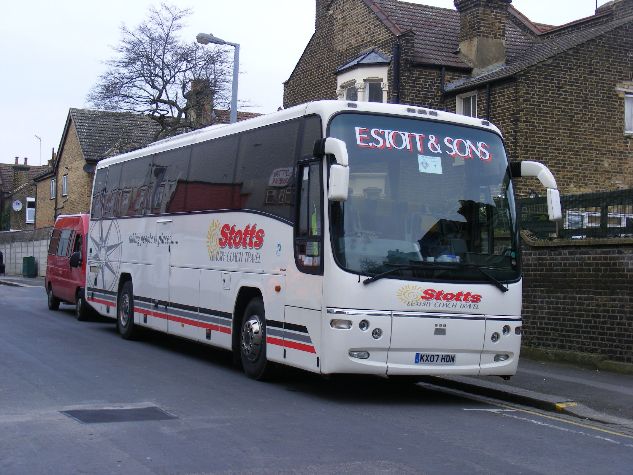 Oldham Athletic supporters' team coach. Unfortunately Oldham lost 1:0 but I salute the travelling supporters of teams where real family entertainment football is provided, rooted in the local community. Nice to see the Droylsden flag in the ground. Stotts Tours Ltd is an old established Oldham firm, but this old established branch of the family is located across the boundary near Huddersfield.(thanks to @felixfind for info) Coach new to Smith, Ashington, Northumberland Fleet list here. Website HERE